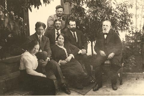 The Aaronsohn family before Sarah left for Istanbul. From left to right: top row (Aaron Aaronsohn), middle row (Alex Aaronson, Shmuel Aaronsohn, Haim Abraham, Ephraim Aaronsohn), bottom row (Rivka Aaronsohn, Sarah Aaronsohn).